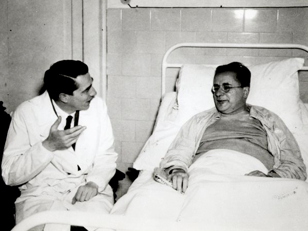 Palmiro Togliatti in hospital, after the shooting by Antonio Pallante (1948); left, dr. Pietro Valdoni, surgeon that remove the bullets and save the life of communist leader.